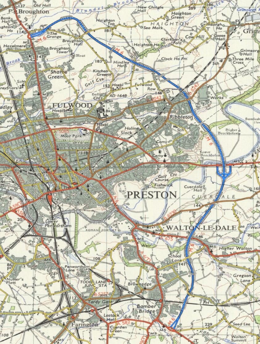 Route of the original Preston By-Pass (blue) from a map of the time period